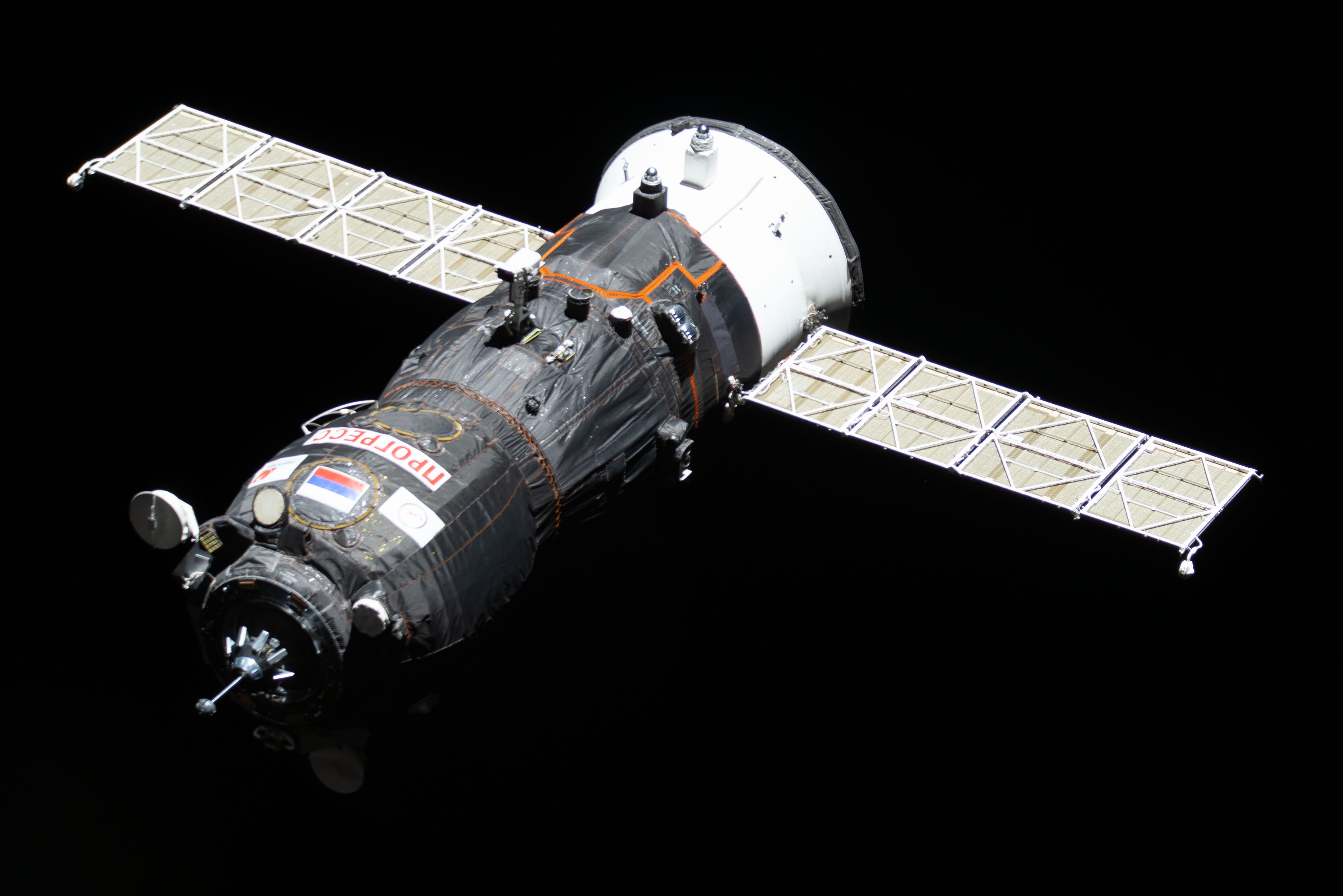 Russia's Progress 72 resupply ship is pictured approaching the International Space Station's Pirs docking compartment carrying 3.7 tons of food, fuel and supplies for the Expedition 59 crew.